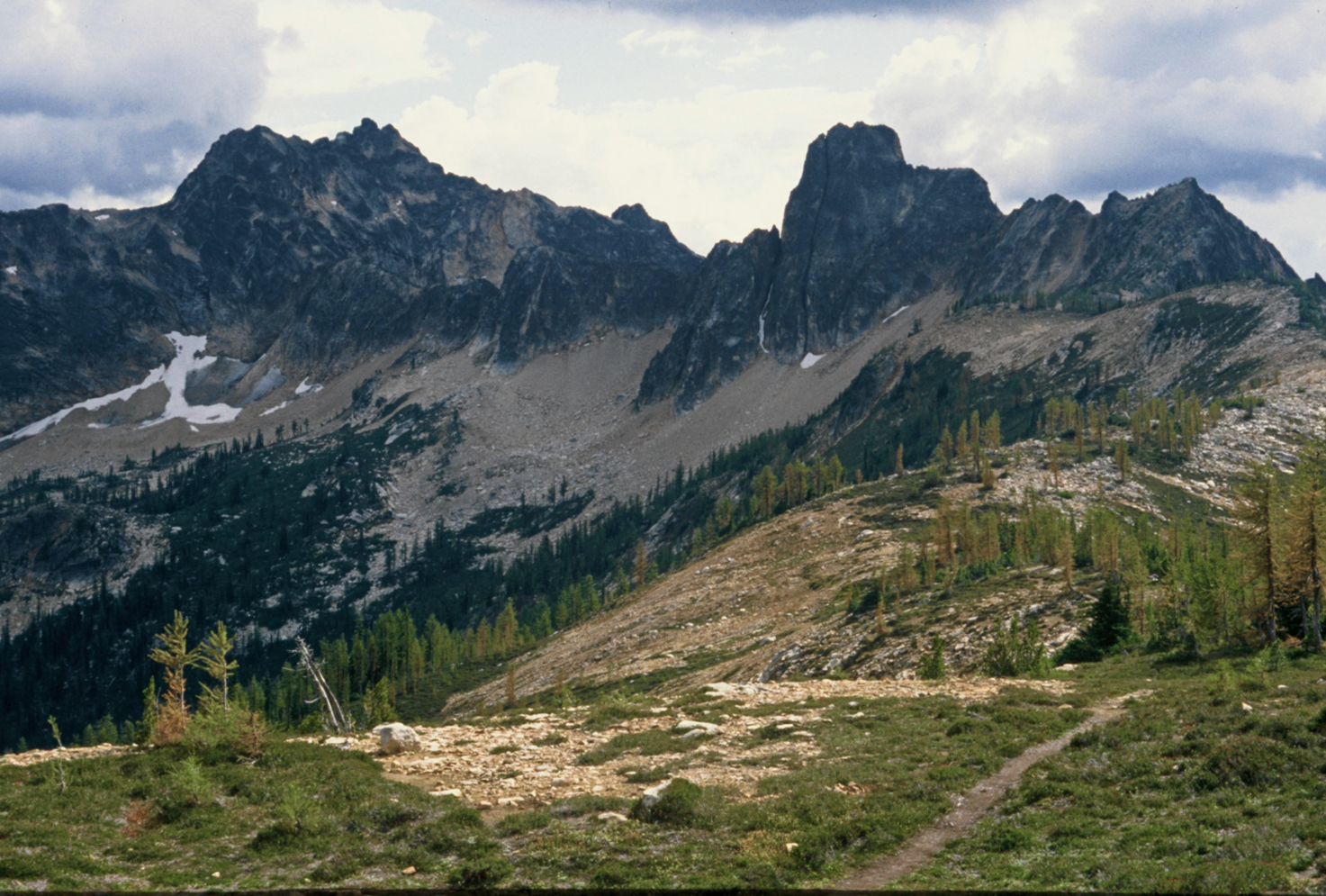 Cutthroat Pass on the Pacific Crest Trail, North Cascades, Washington. Annotation for Molar Tooth.